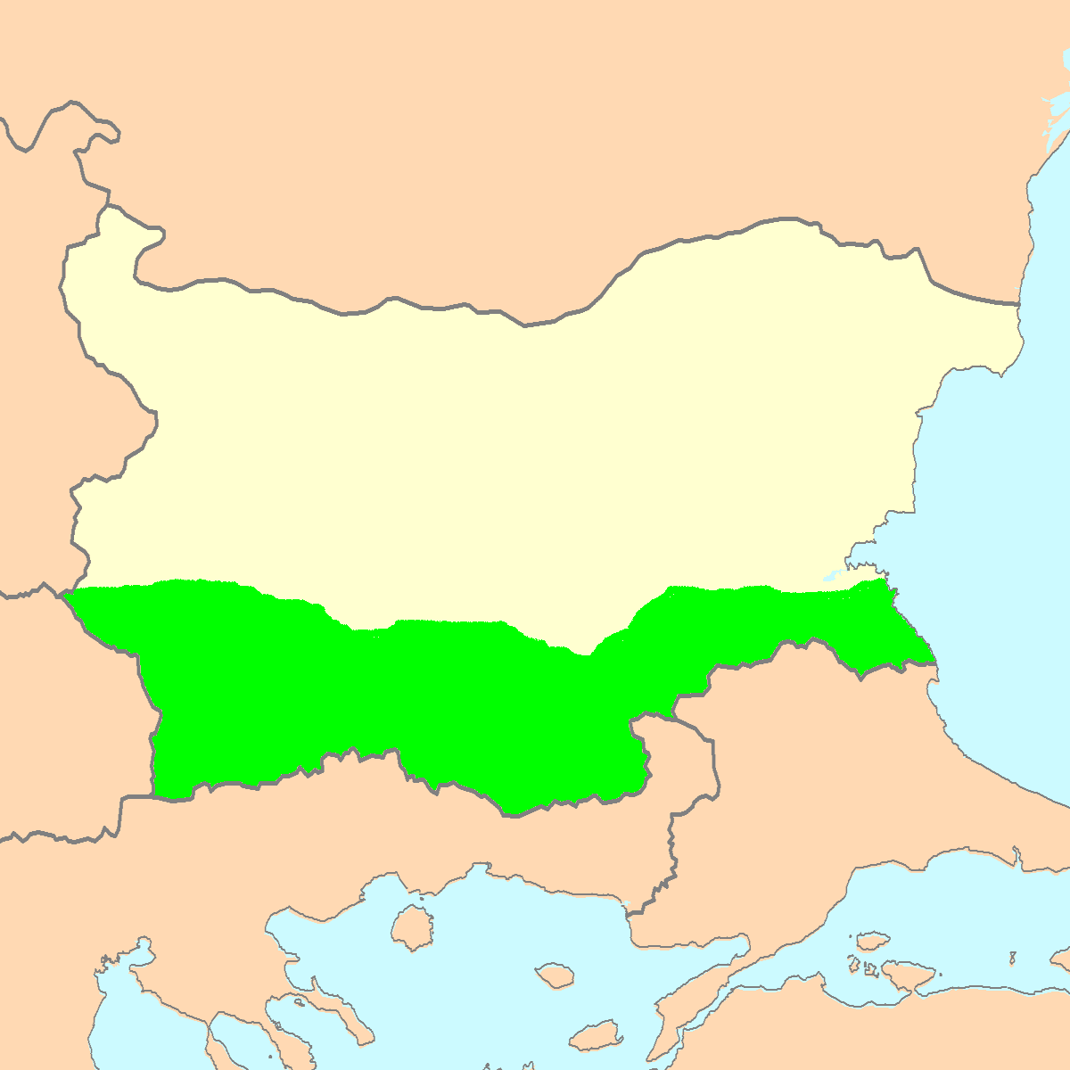 Rhodopean Tzigay areal of distribution